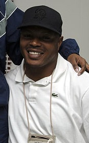 Picture of NFL player Shelton Quarles (Cropped from original File:US Air Force 070312-F-1131H-002 OPERATION IRAQI FREEDOM.jpg)